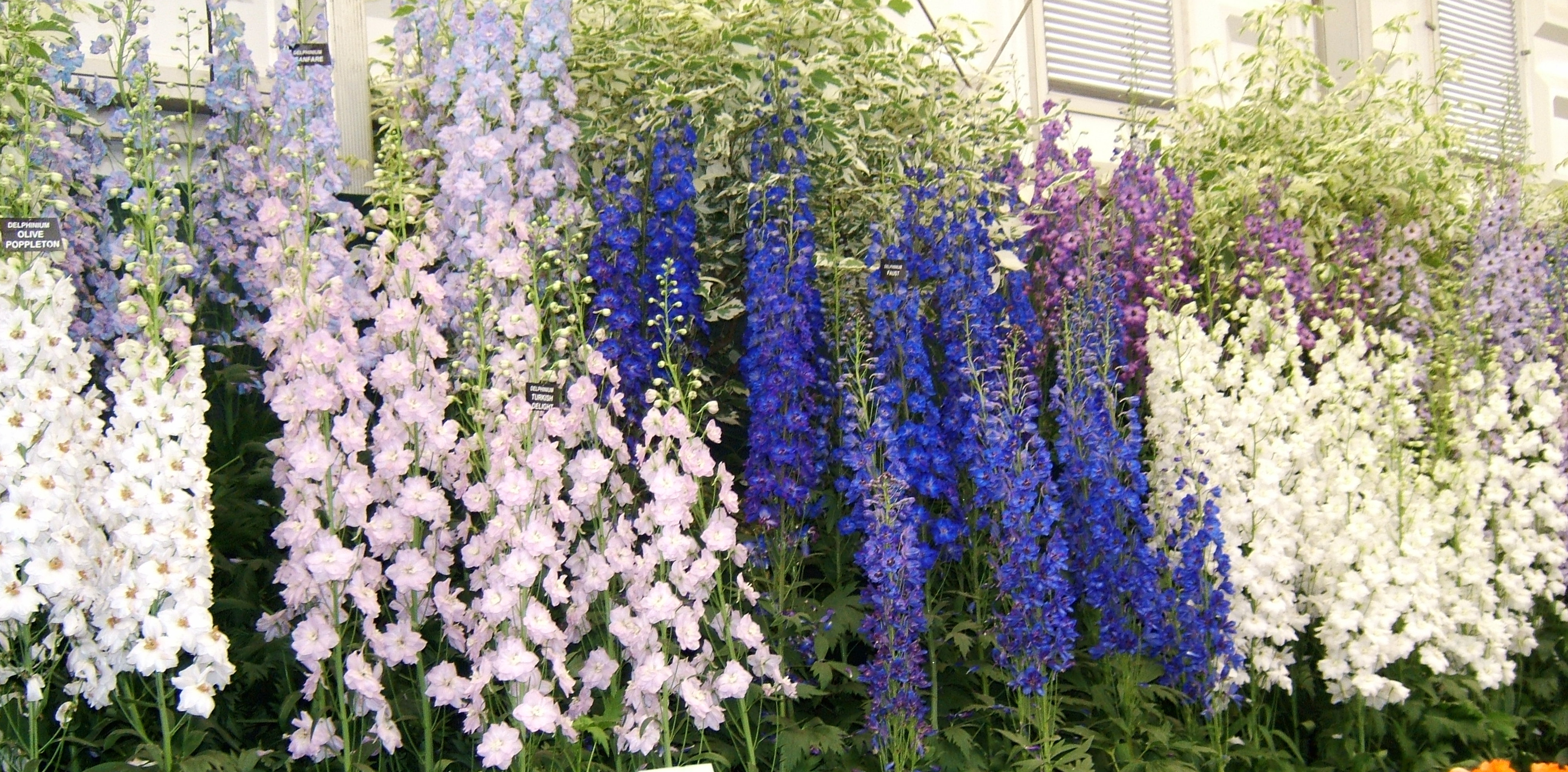 Delphiniums on display at Chelsea Flower Show, 2009